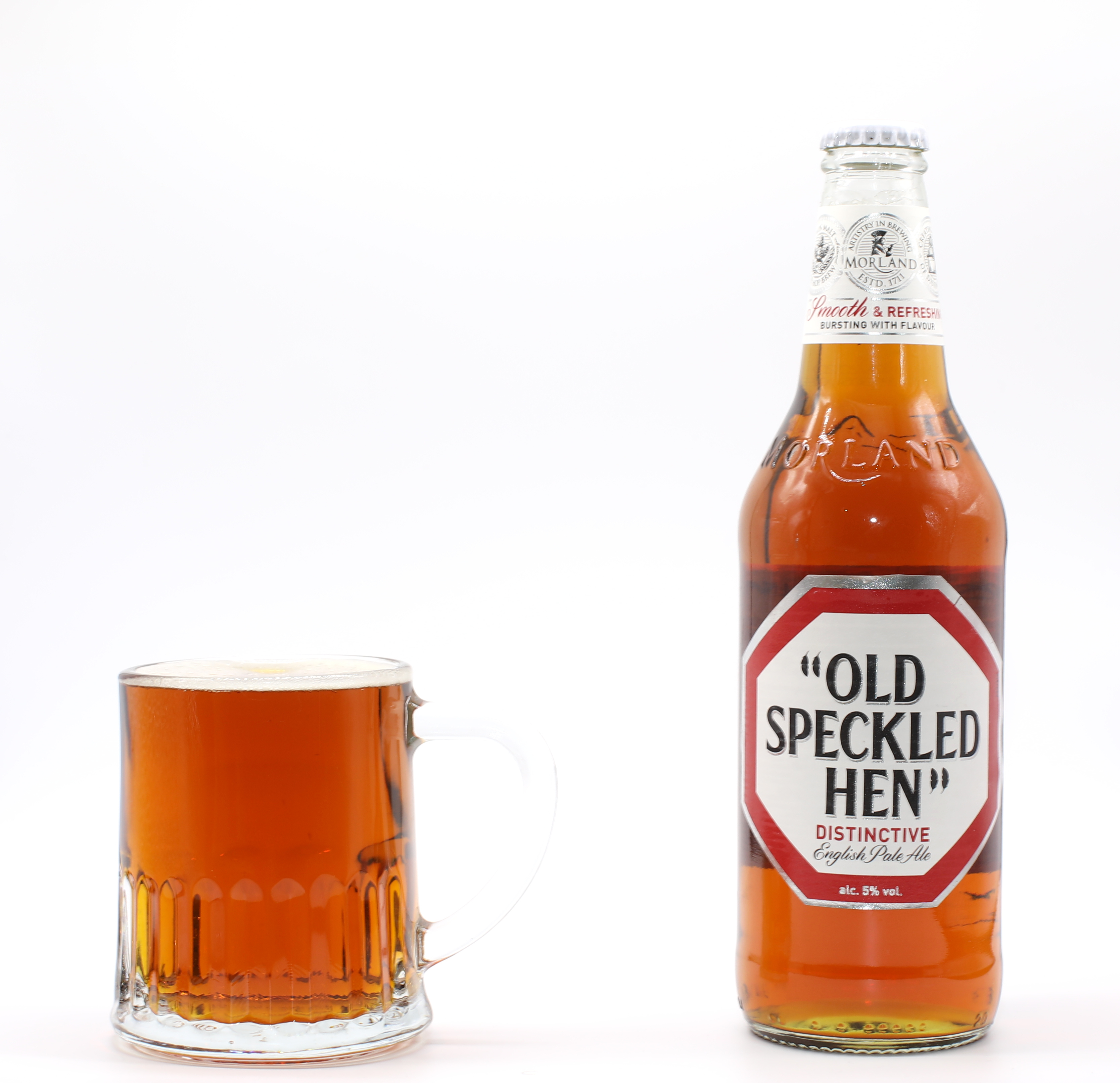 Photo of a glass of the beer old speckled hen and bottle of same